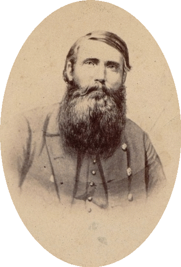 Carte-de-Visite of a bust portrait of Captain John Hanson McNeill in uniform. From the Collections of the Confederate Memorial Literary Society, Virginia Museum of History and Culture: Object namber: FIC2009.02272 (CMLS)